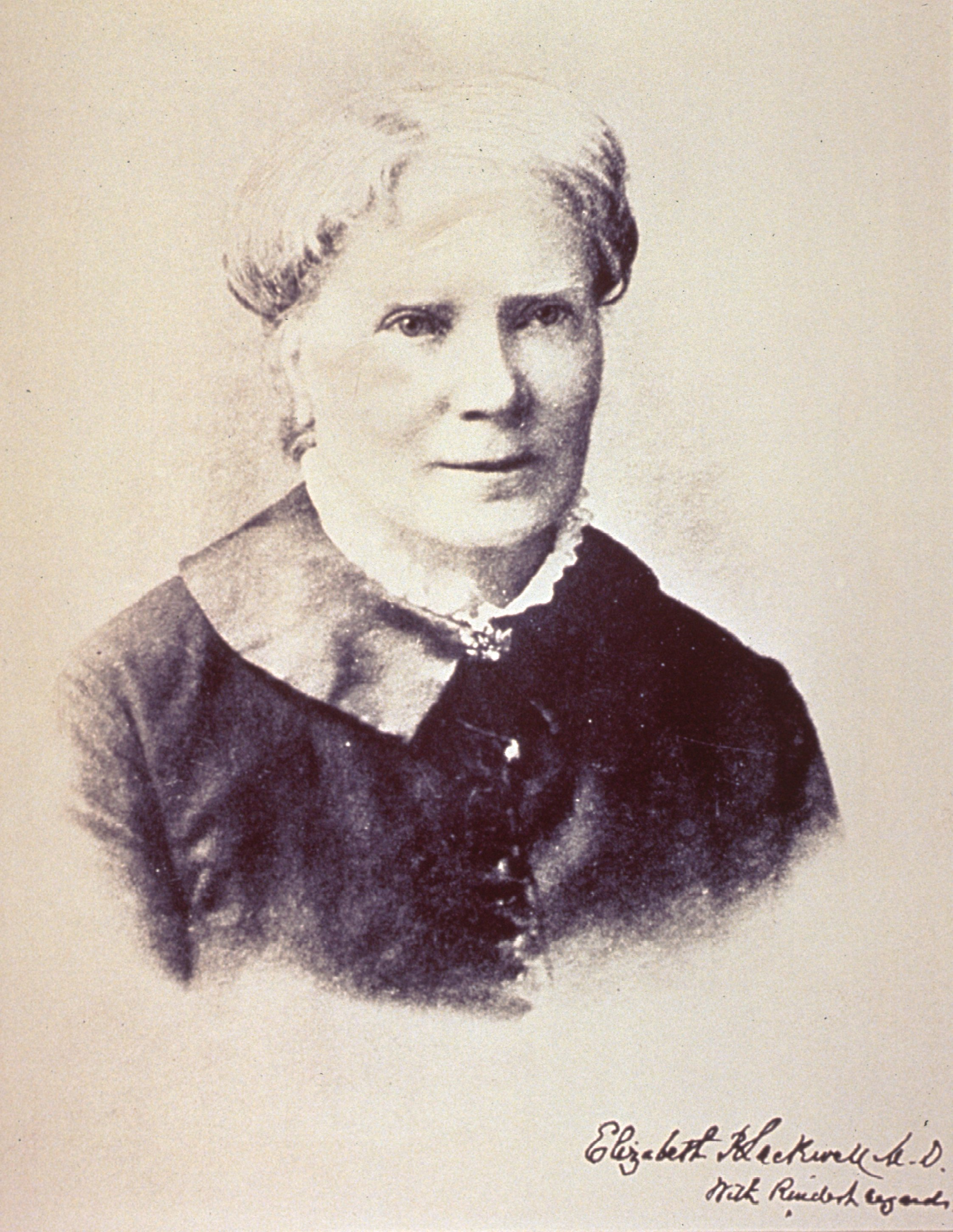 Depicted person: Elizabeth Blackwell